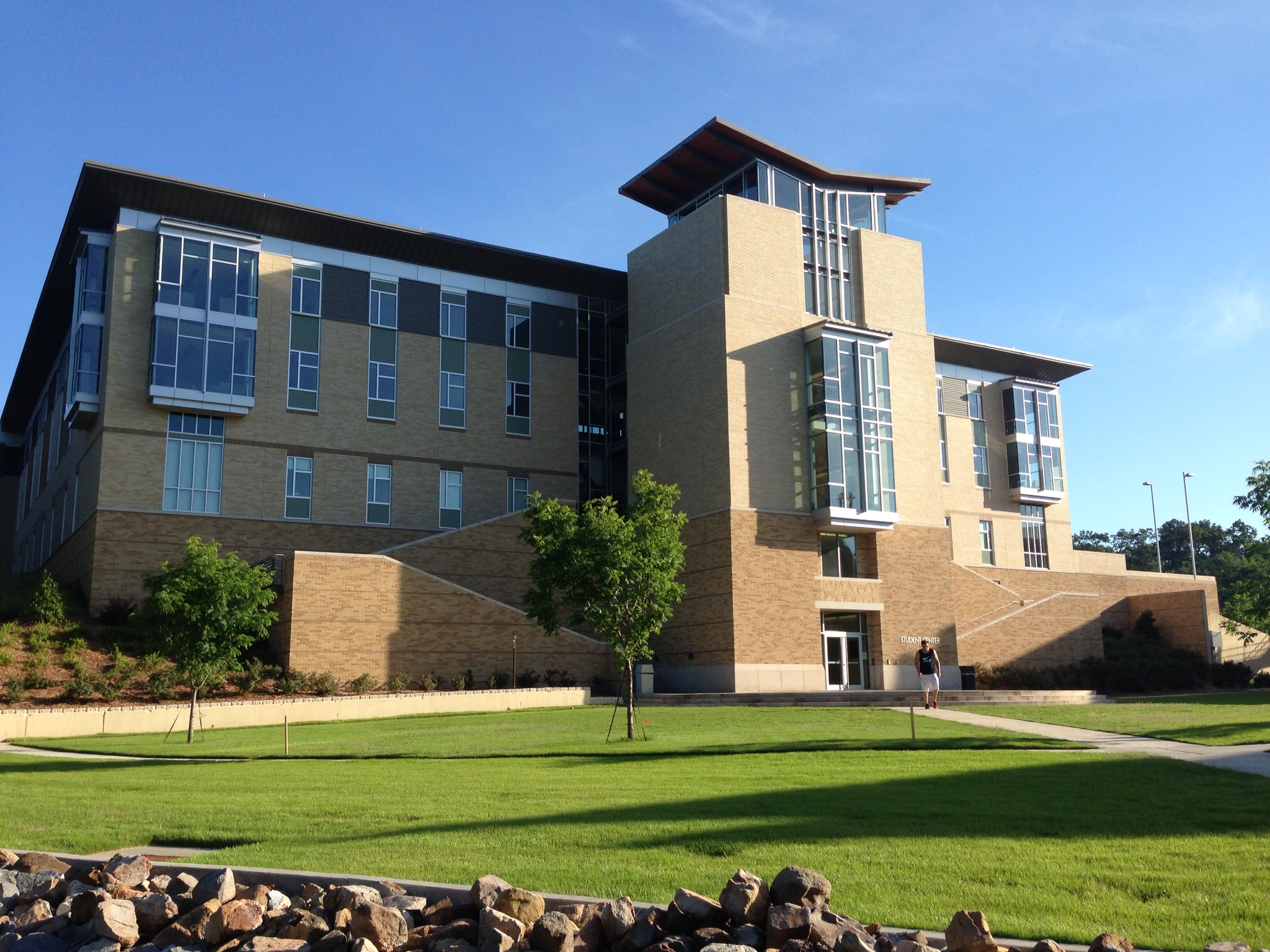 Student Life Center at the Arkansas School for Mathematics, Sciences, and the Arts.